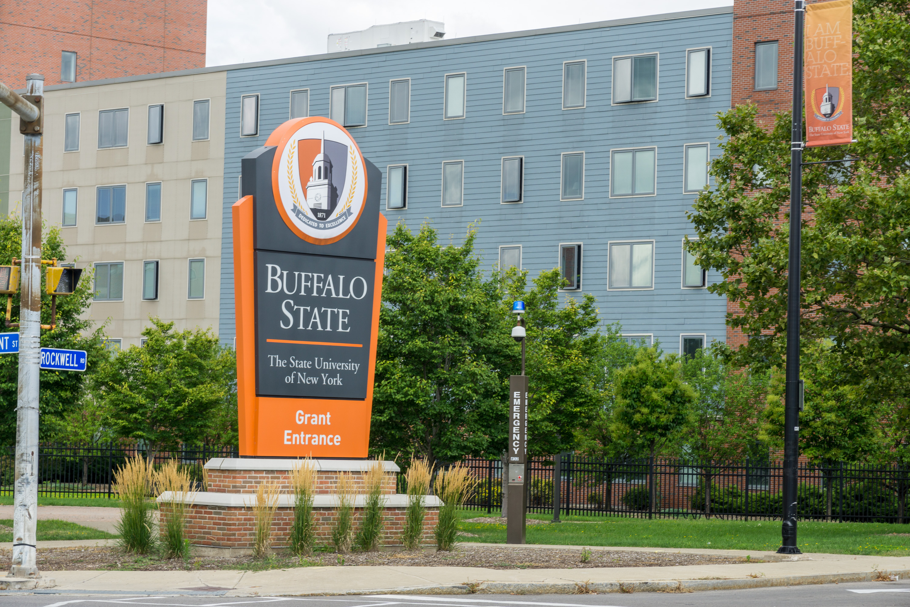 Buffalo State College, Grant Street at Rockwell Road.